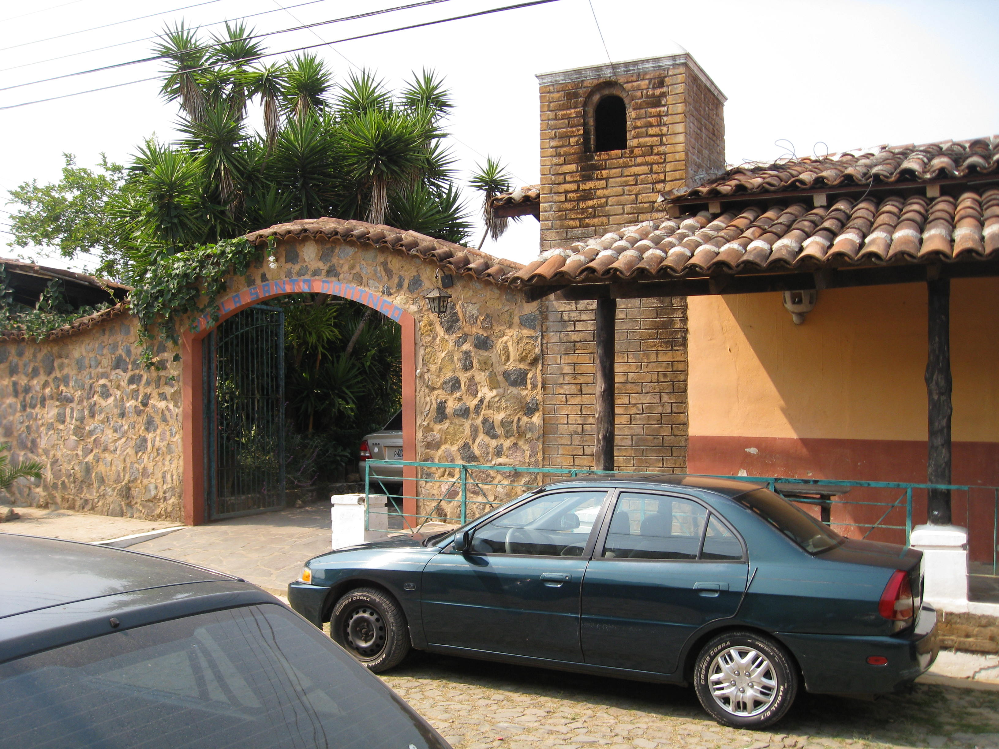 Hostal Santo Domingo